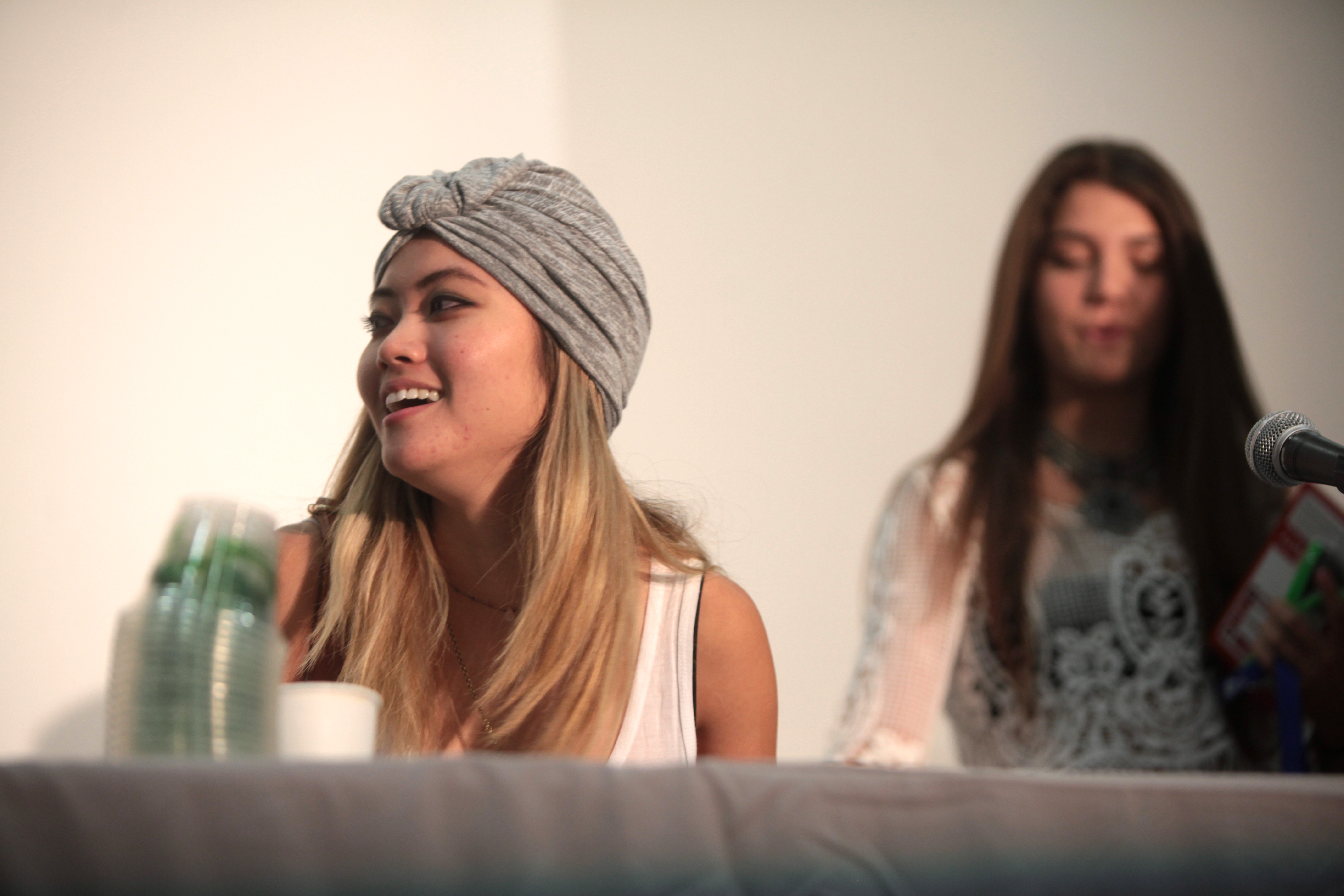 Jessica Lu and Devyn Smith speaking at the 2014 VidCon at the Anaheim Convention Center in Anaheim, California.